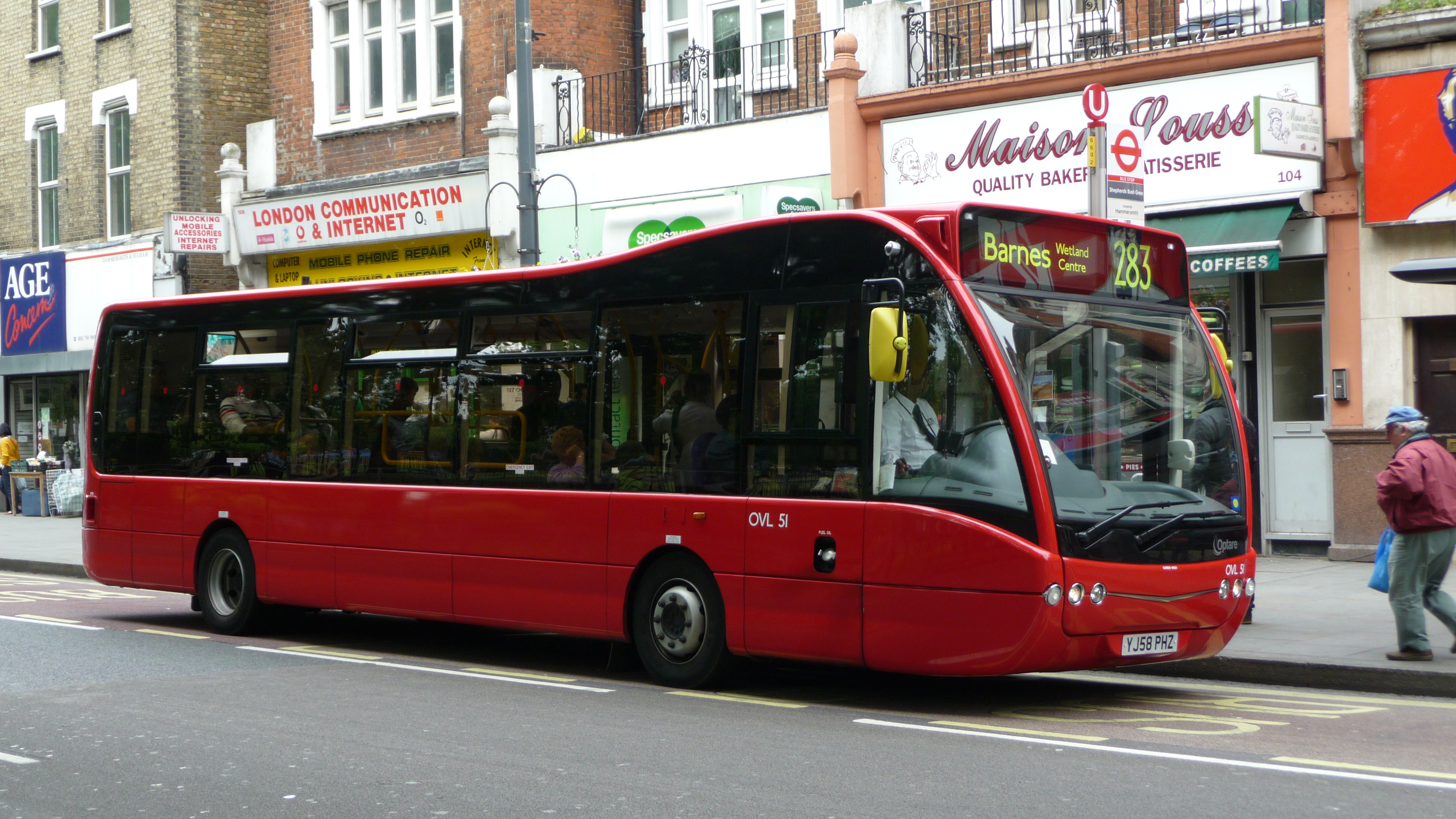 NCP Challenger OVL51 (YJ58 PHZ), an Optare Versa, in Uxbridge Road, Shepherd's Bush, London, on route 283.